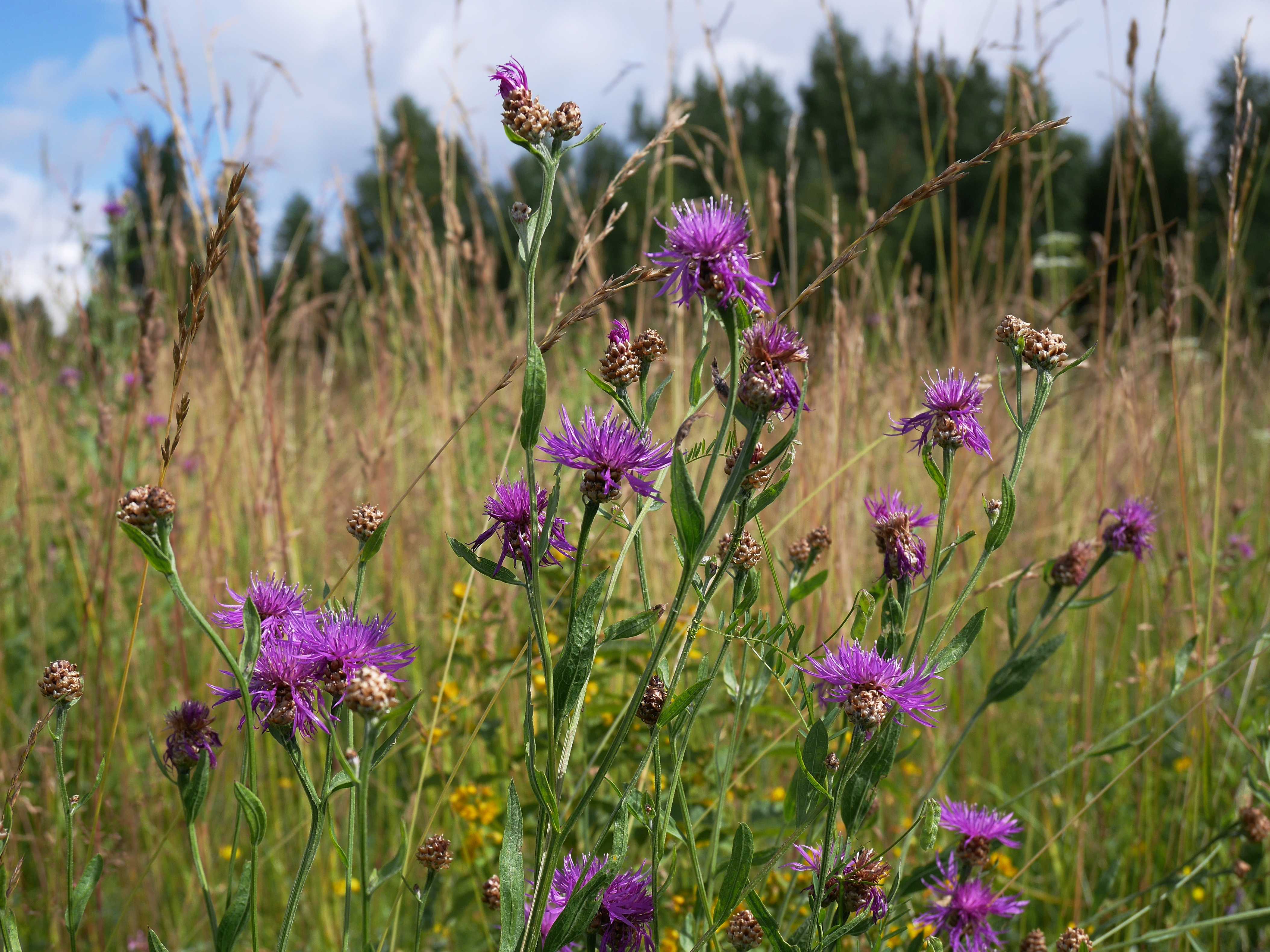 Centaurea jacea in Belarus